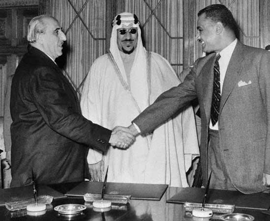 President Shukri al-Quwatli signing a defense agreement with Gamal Abd al-Nasser of Egypt and King Saud in Egypt on March 13, 1956. The agreement said that Syria, Egypt, and Saudi Arabia (The Big Three), would safeguard Arab security and defend the Arab World against Zionist aggression. Photo prise avec l'autorisation du webmaster du site